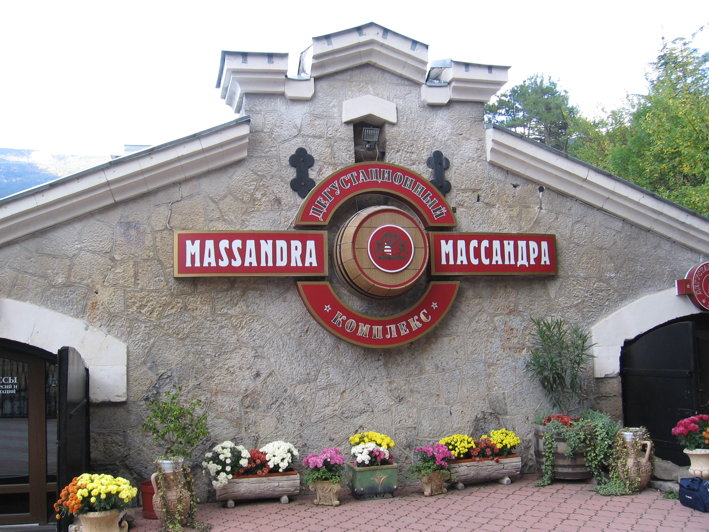 Massandra winery degustation center, Crimea